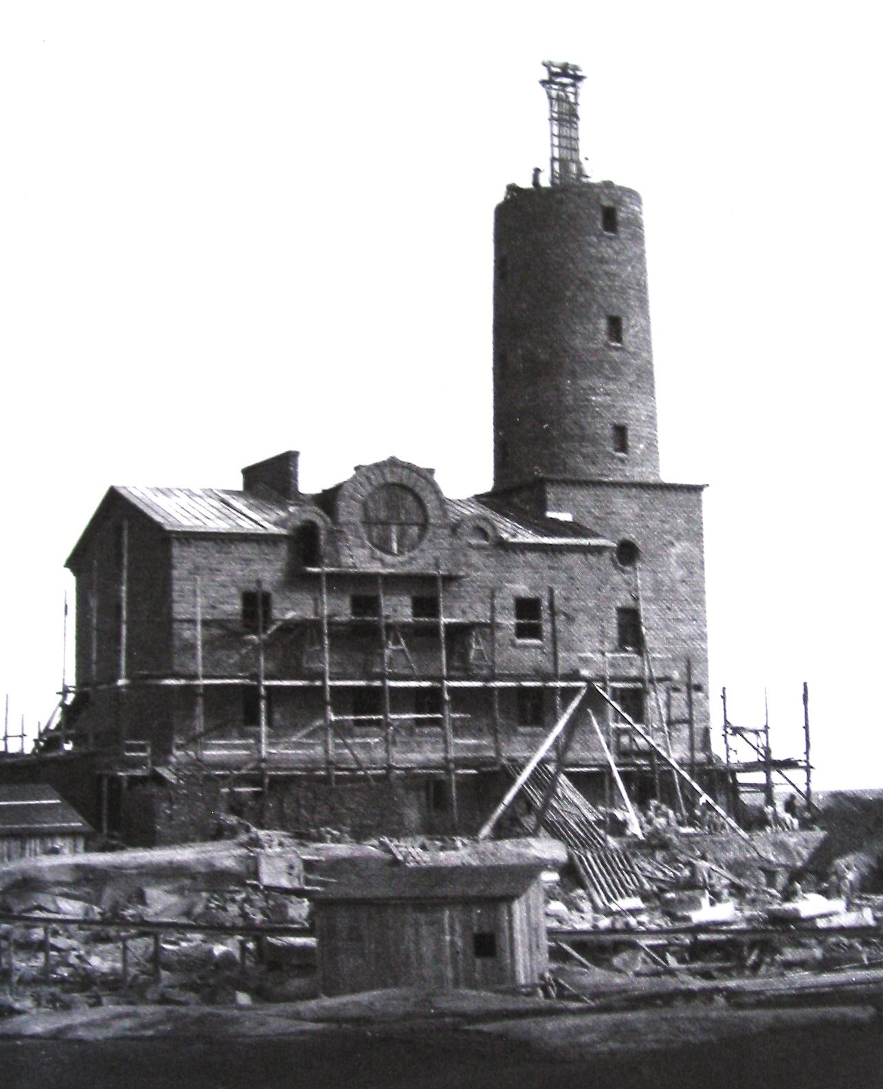 Bengtskär Lighthouse Hanko Finland